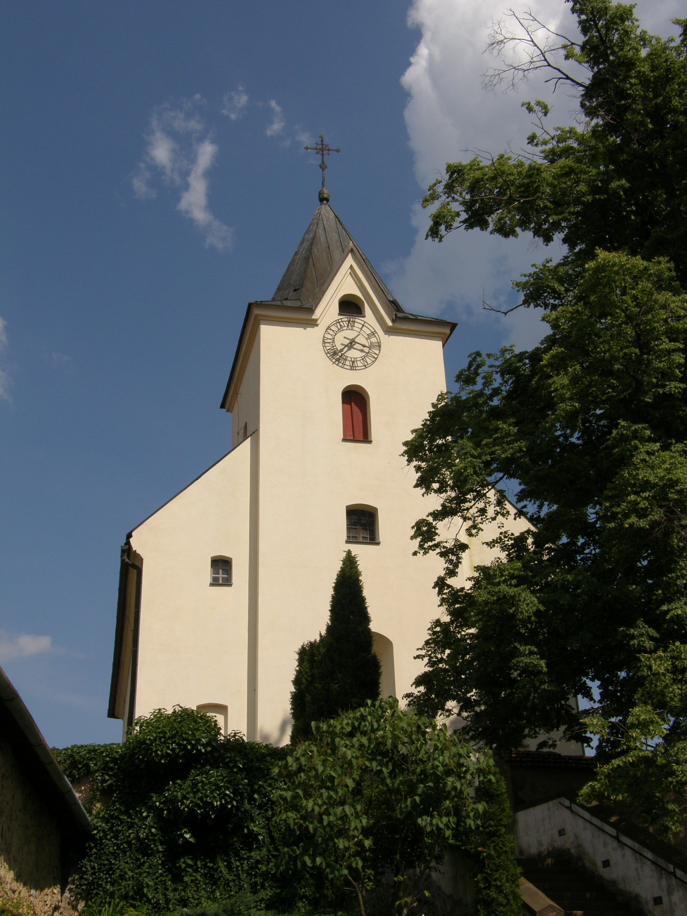 Church of St. Jan Křtitel in Babice nad Svitavou